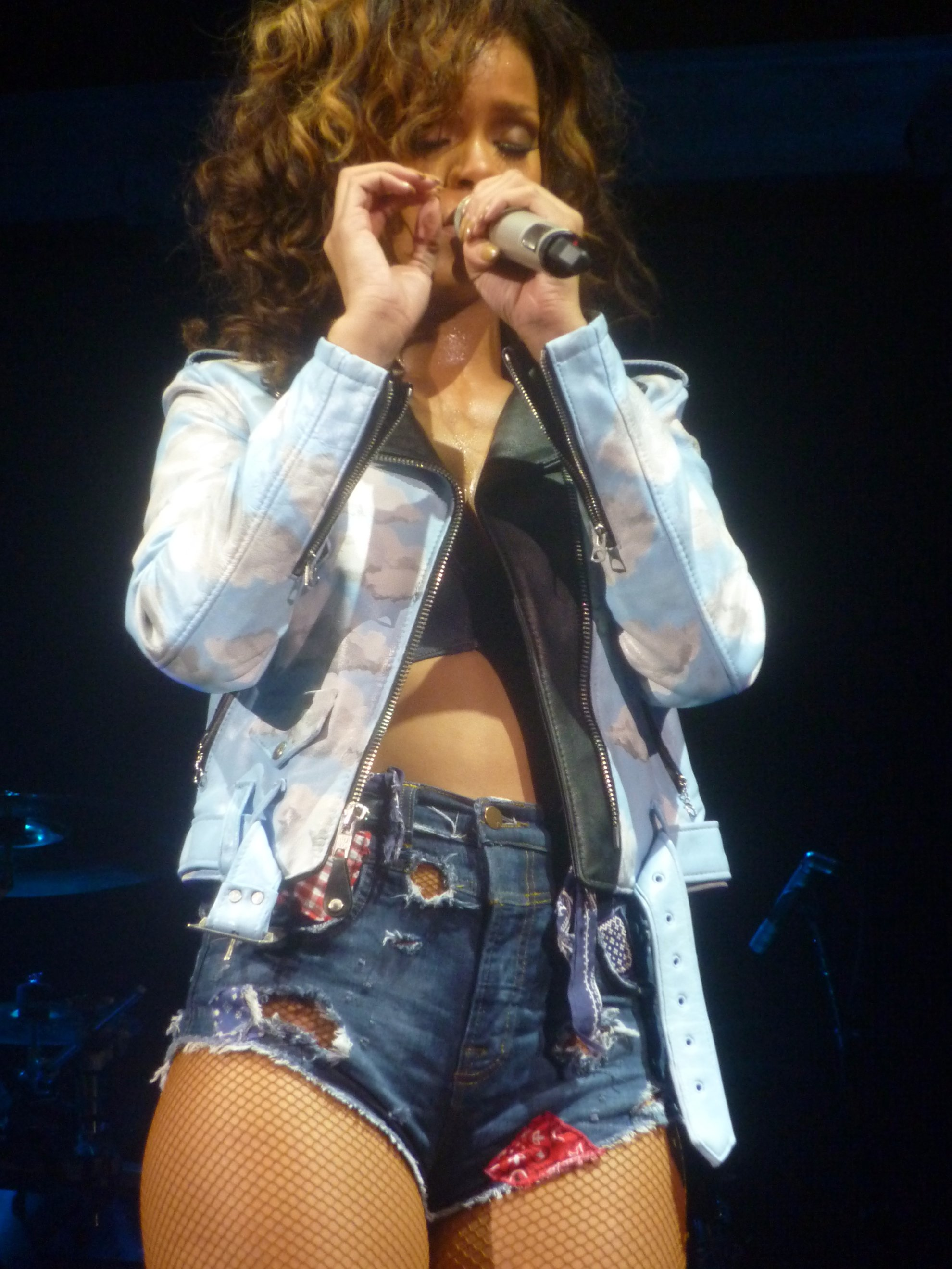 Live In Paris - Paris Bercy 2011